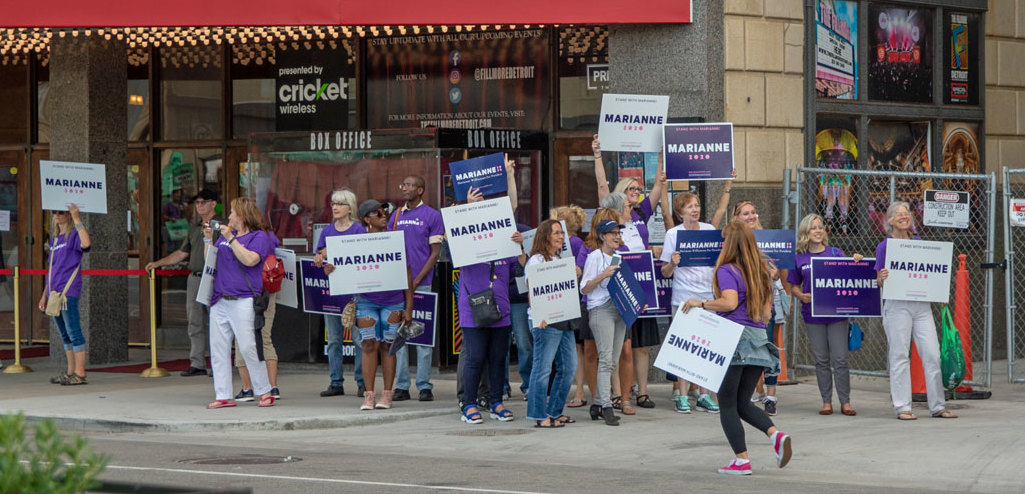 IMG_400s (4)